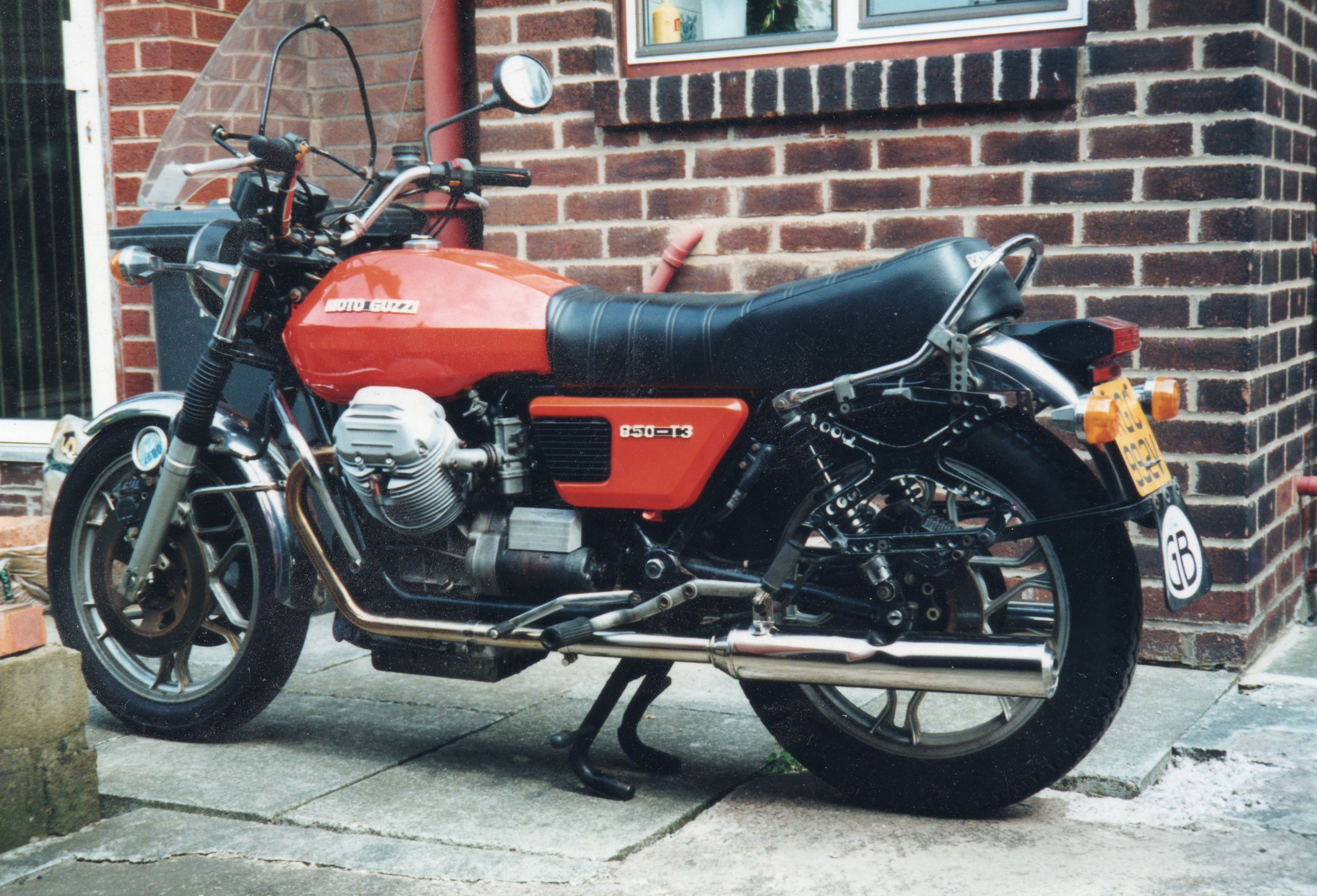 Getting ready for the holiday season